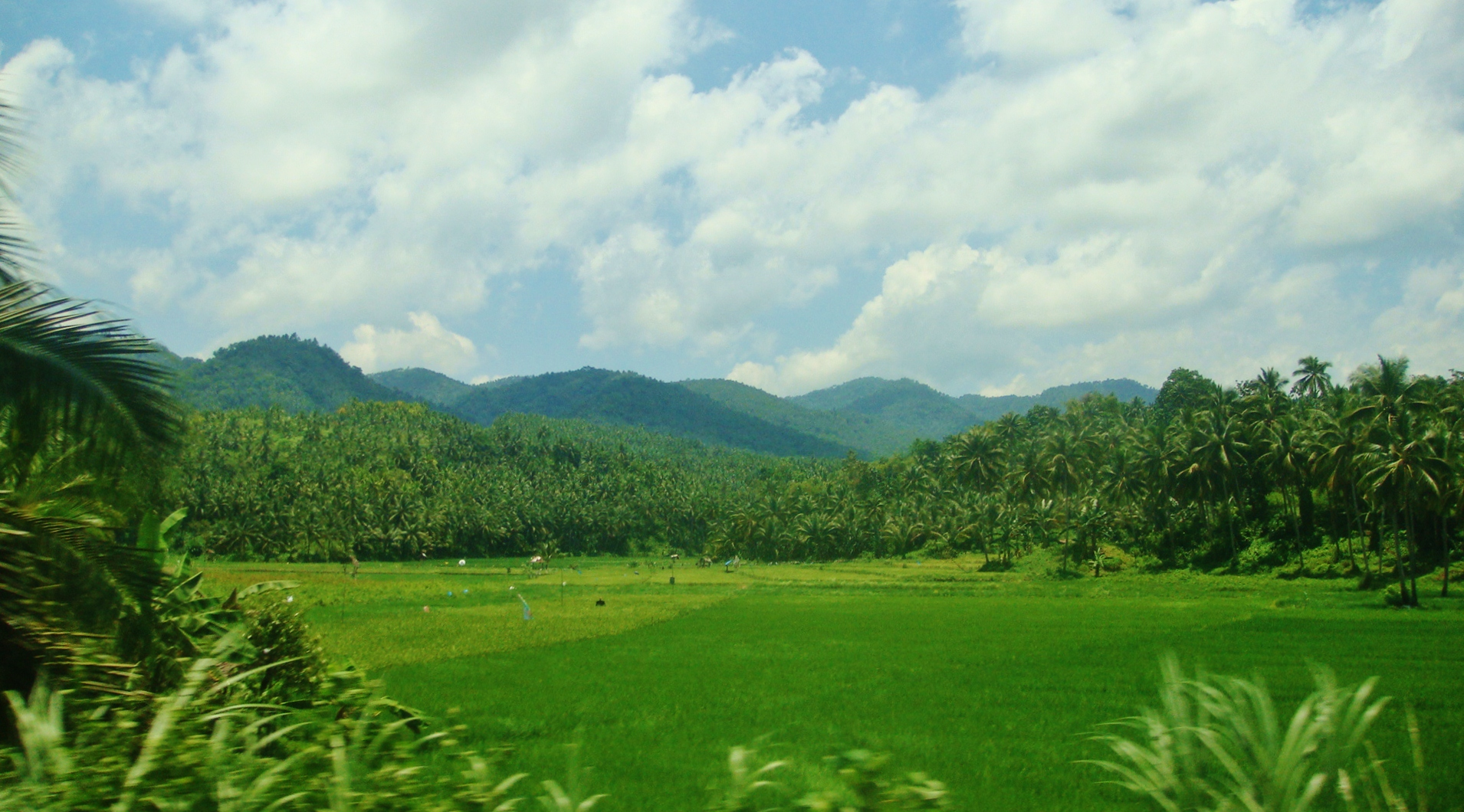 Rice Field in Barangay Salvacion